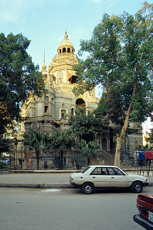 Palace of Sakakini, el-Sakakini, cairo, Egypt